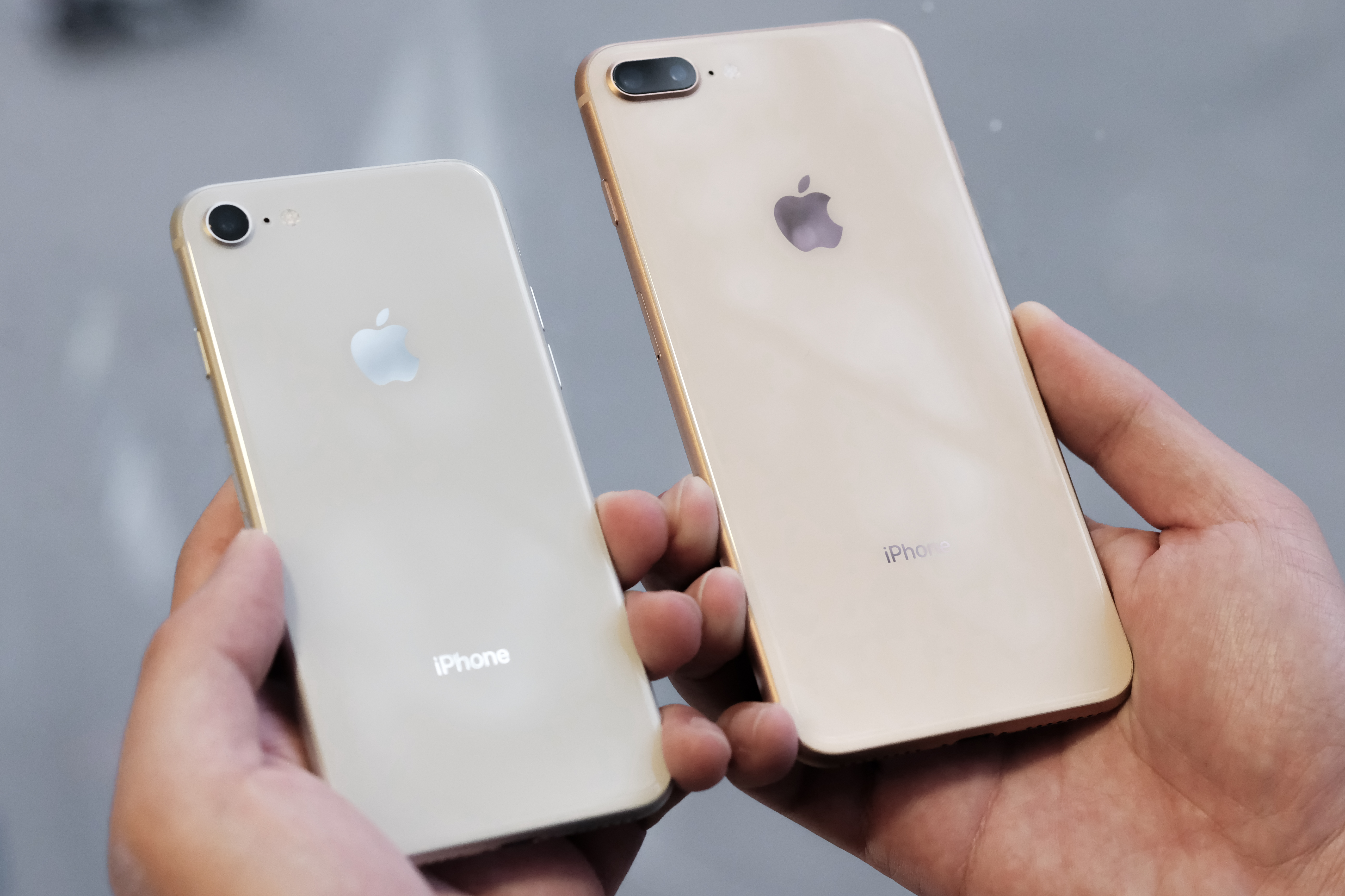 iPhone 8 in silver and iPhone 8 Plus, both holding in the hand